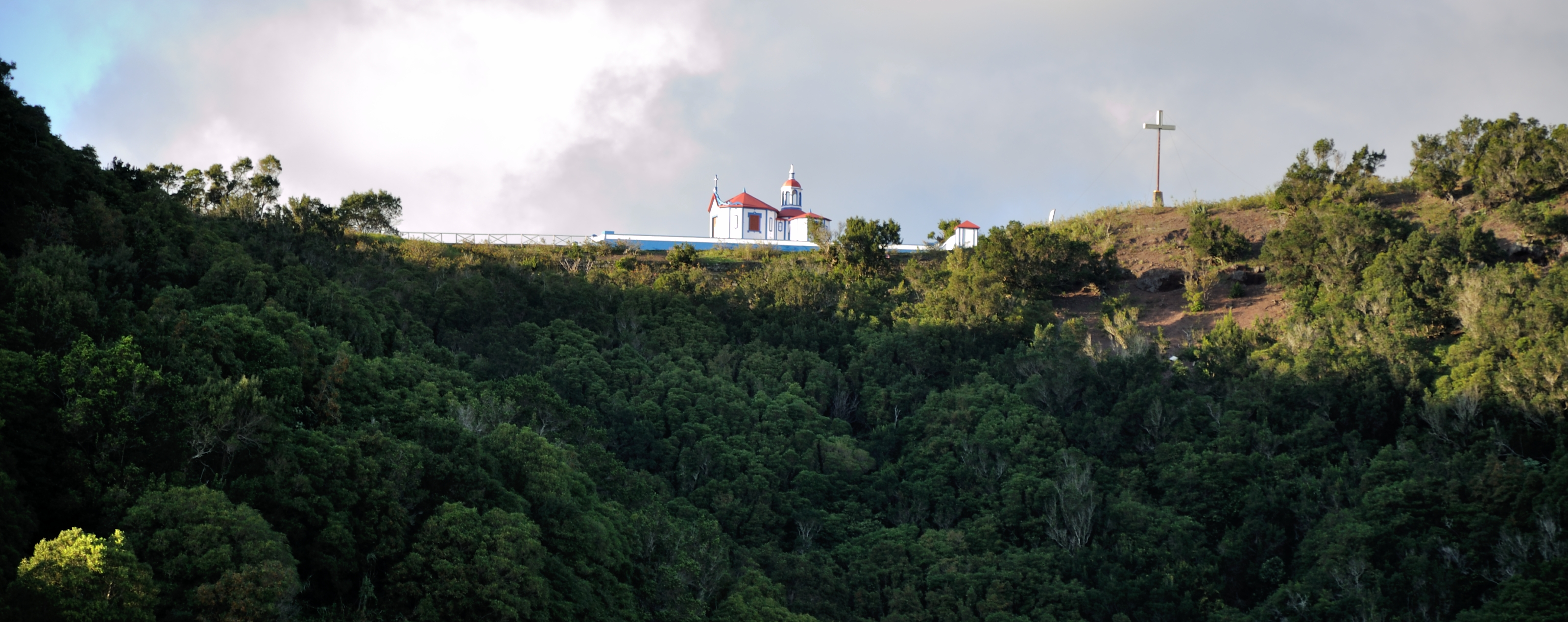 Portugal, stroll through Água de Pau (Azores)